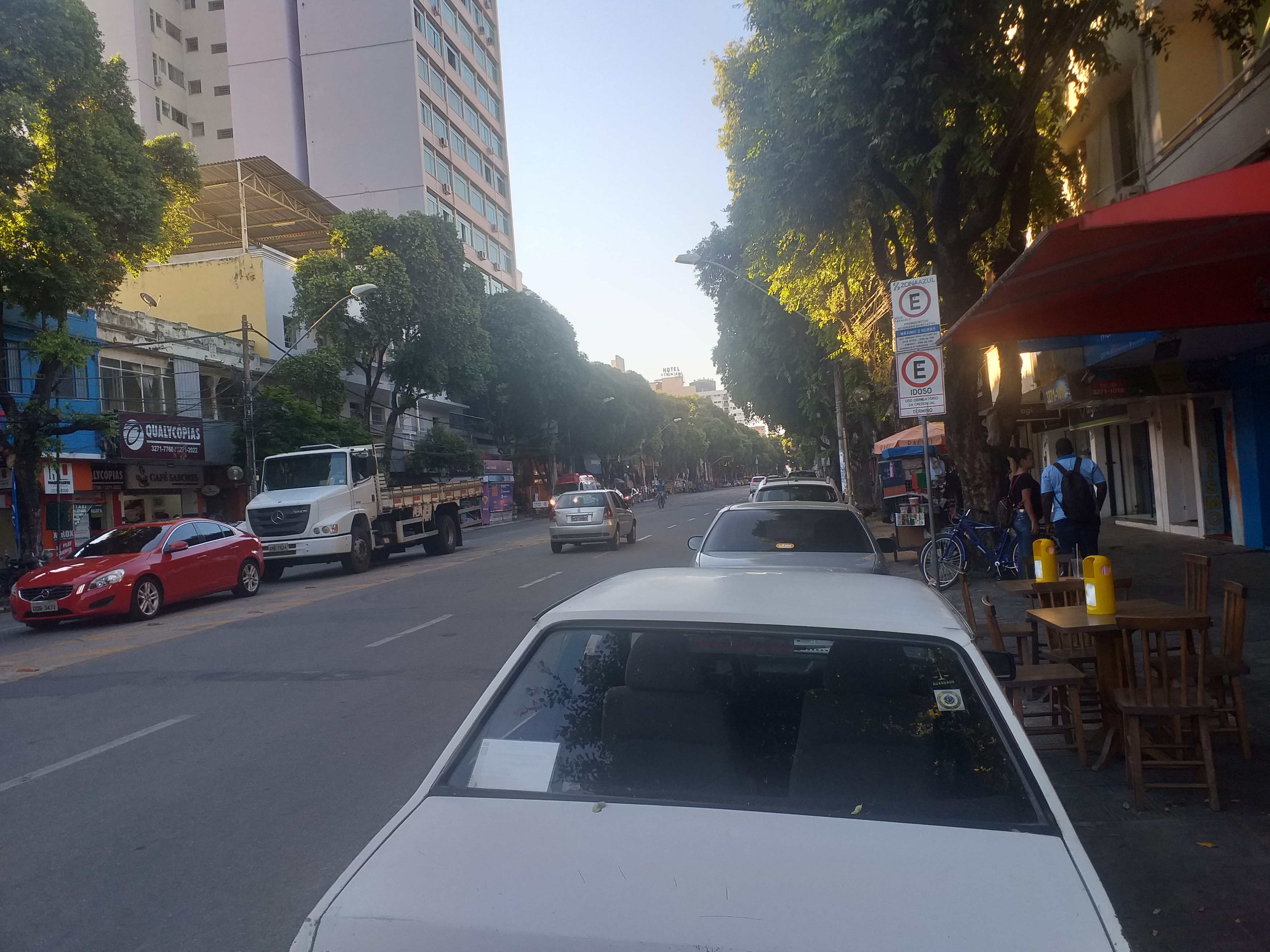 Stretch of the Minas Gerais Avenue, in Governador Valadares, Minas Gerais, Brazil.